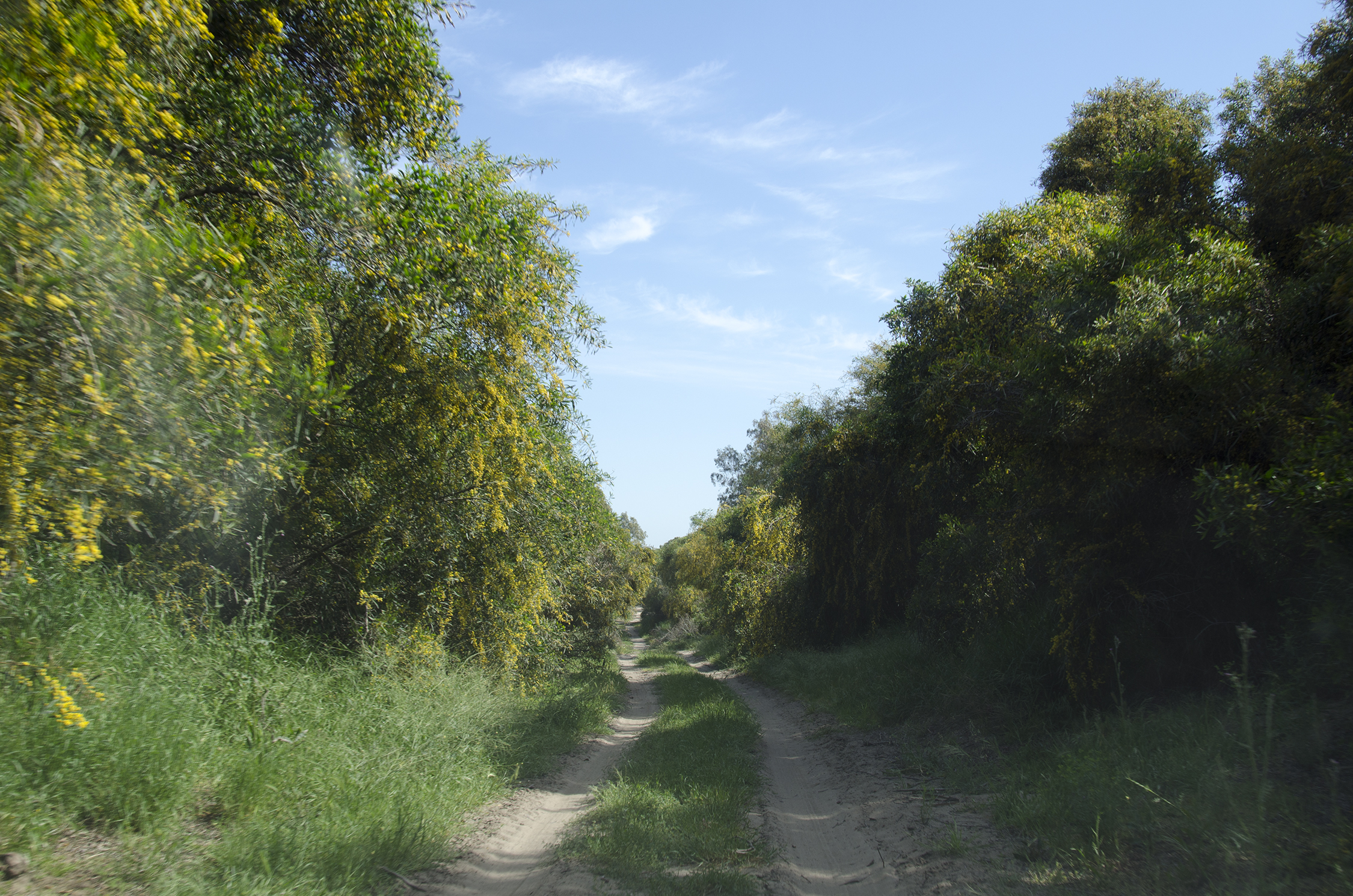 Acacia saligna, one of main dune forestatiton trees of Akyatan Forest in Karataş, Adana - Turkey.